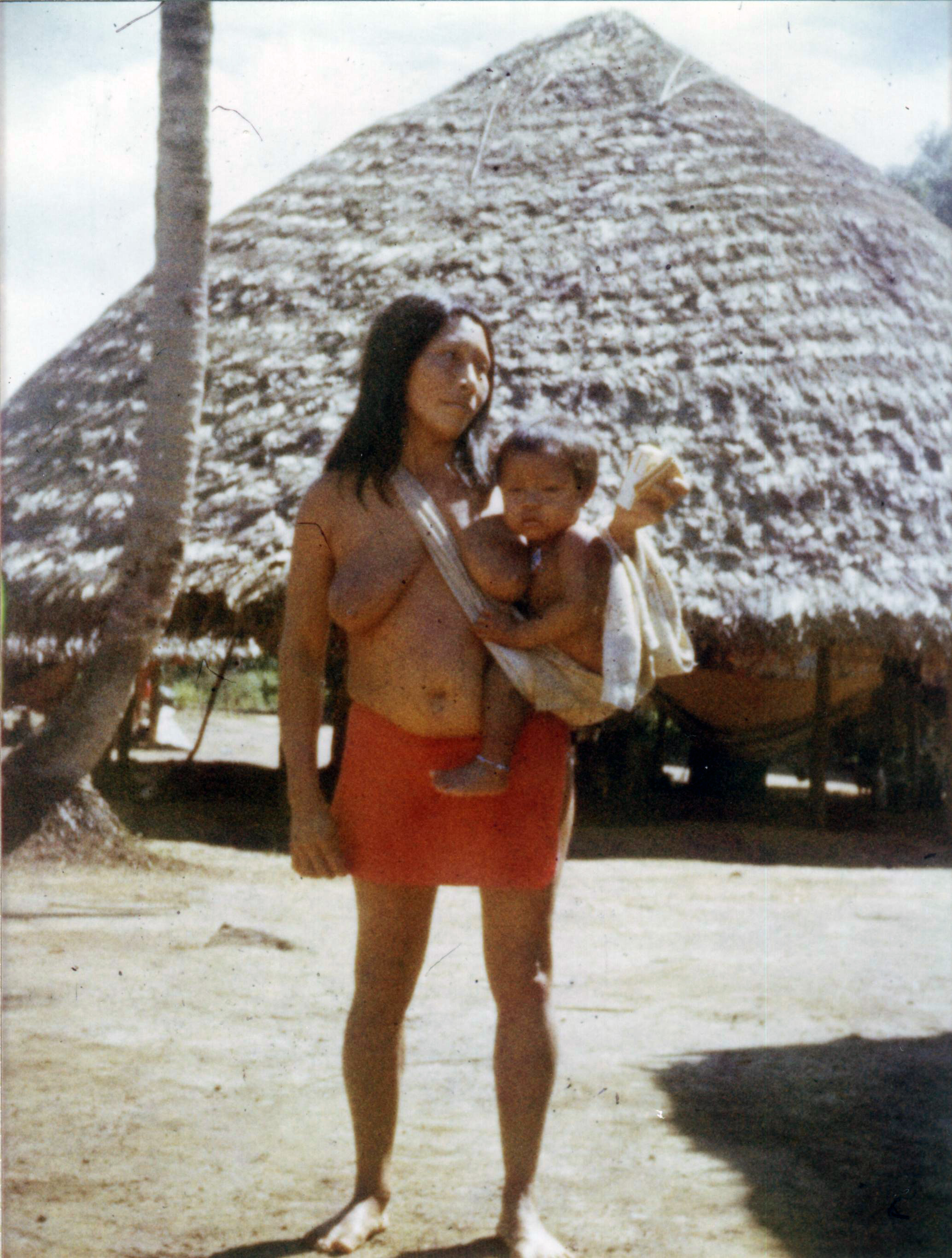 Photo taken in 1979. Daily life in the Wayana village of Antecume Pata in French Guiana. A mother and her son.